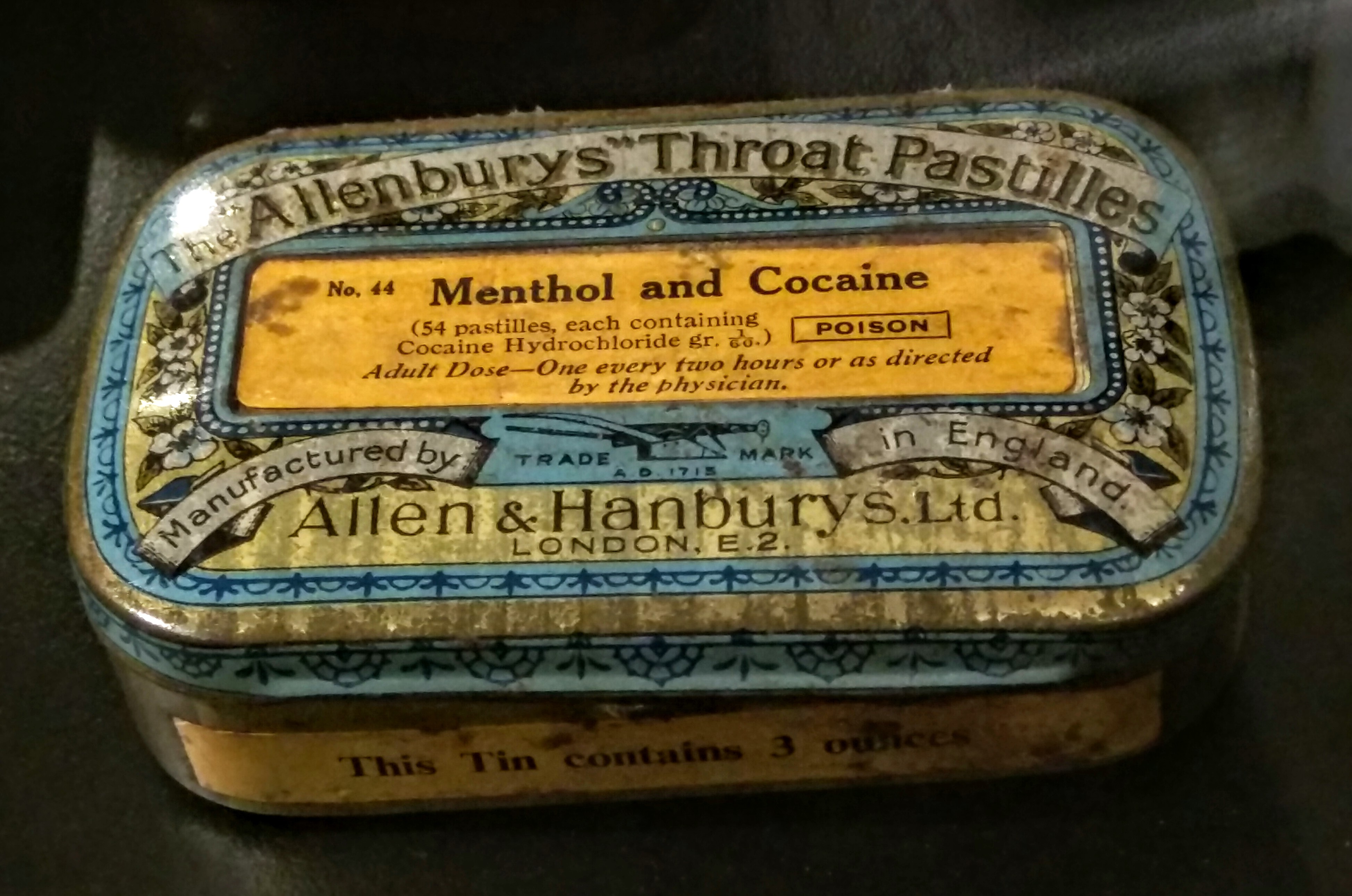 Allenbury's Throat Pastilles with menthol and cocaine